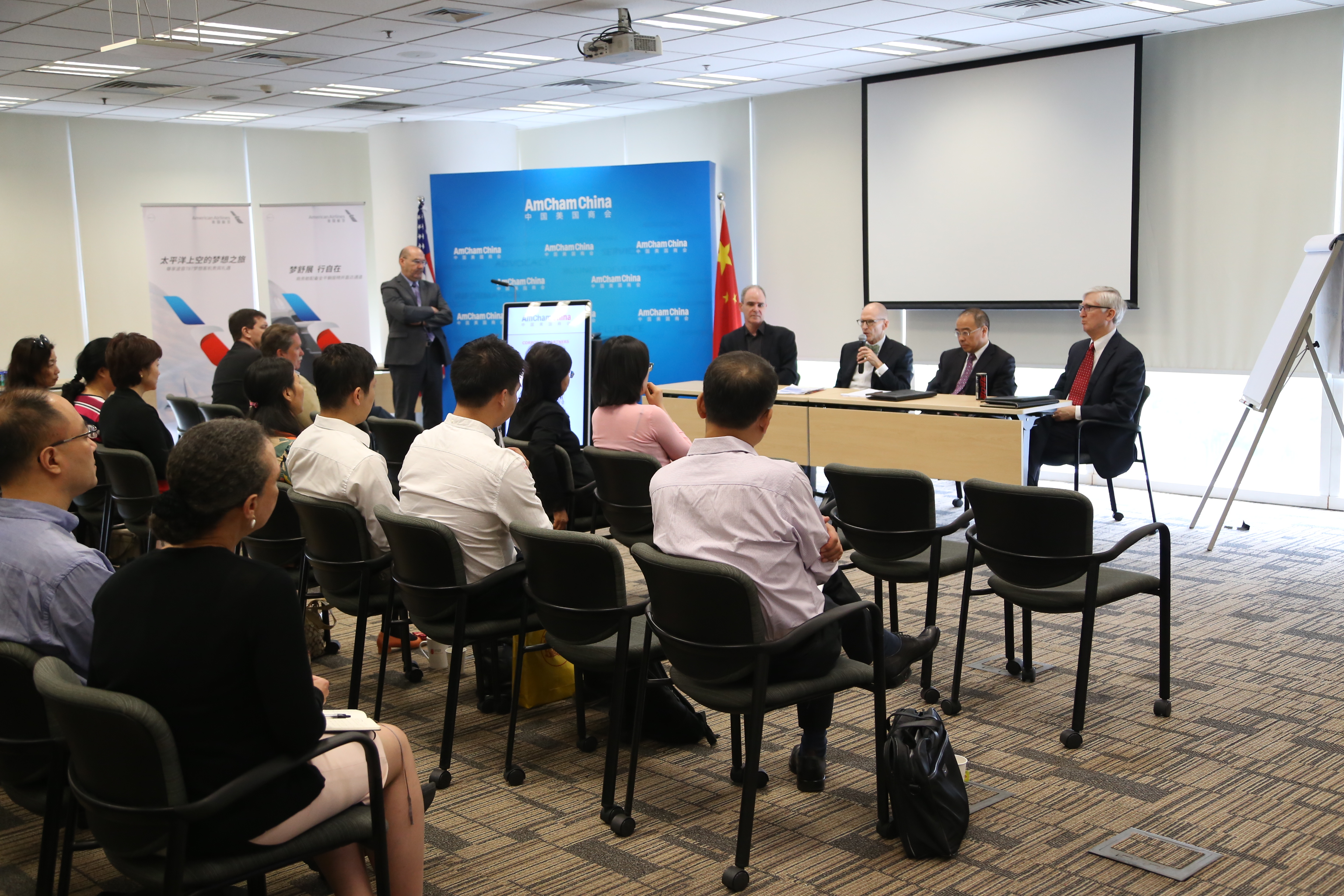 AmCham China board members and president debrief AmCham's D.C. advocacy trip